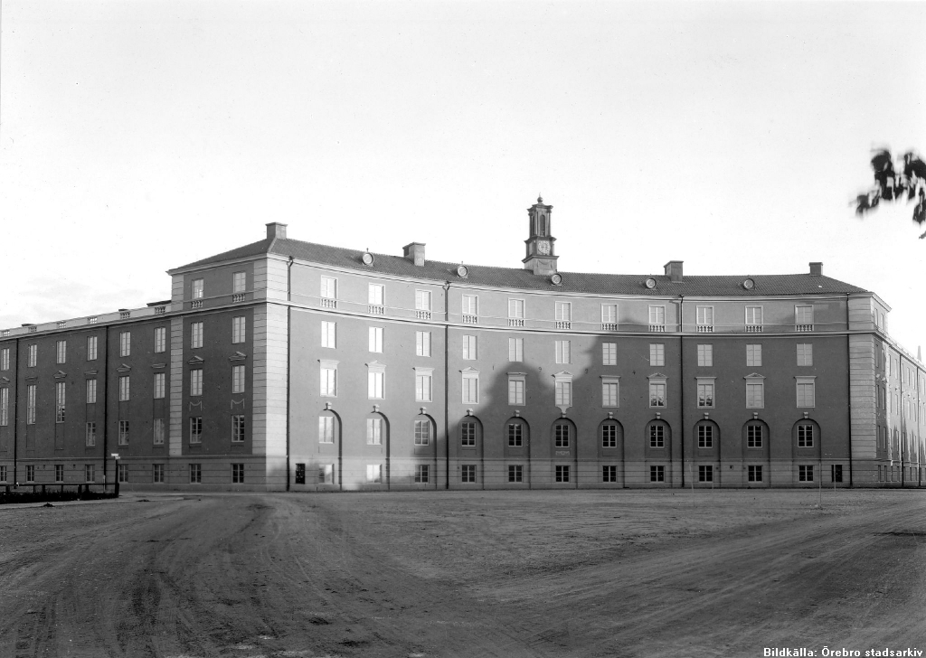 The old Engelbrekt school, Örebro, Sweden